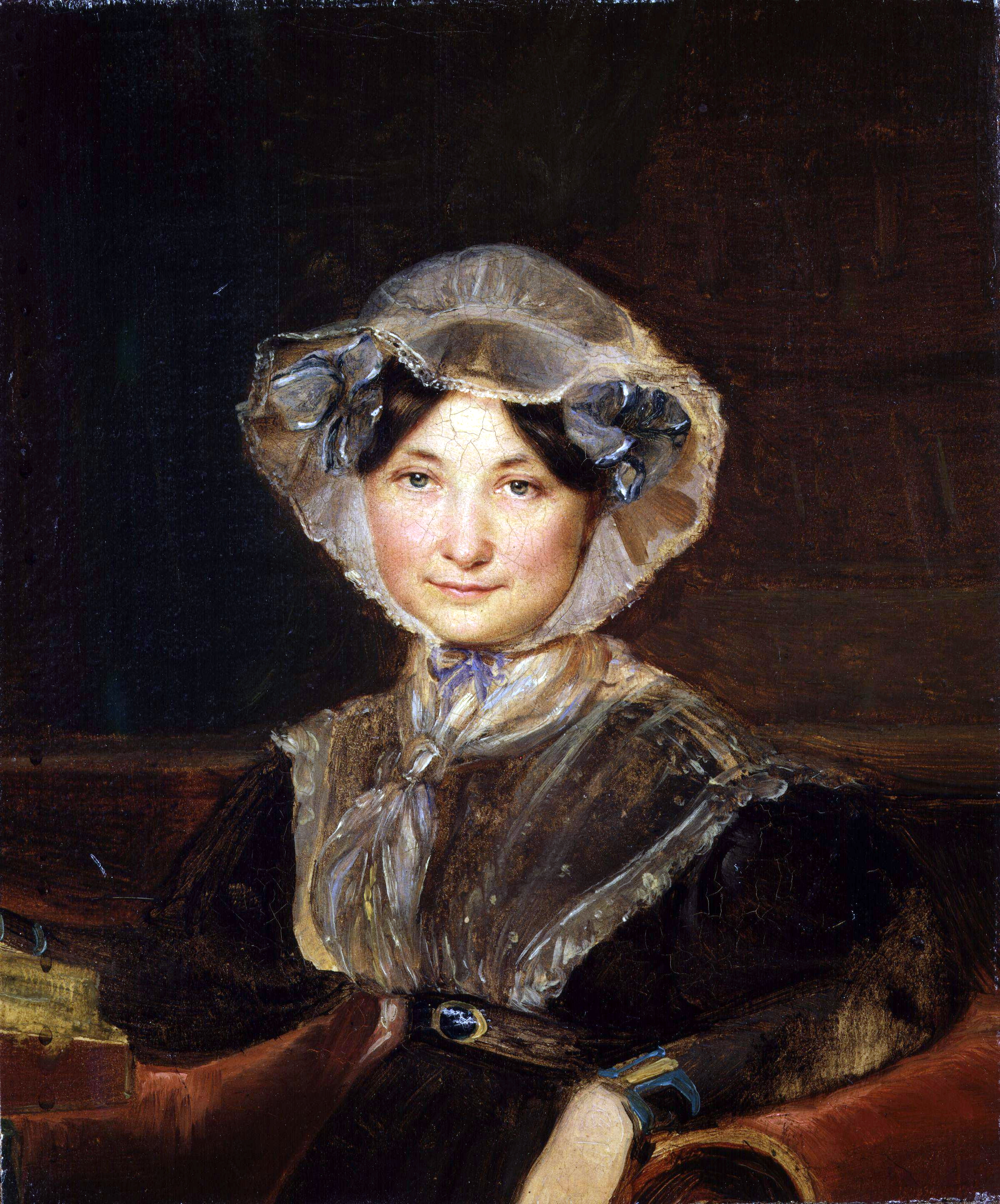 Frances Trollope, by Auguste Hervieu (floruit 1819-1858). All images in this batch have a known author with unknown death date, but according to the NPG's website the author was floruit (known to be active) prior to 1859, and so is reasonably presumed dead by 1939.